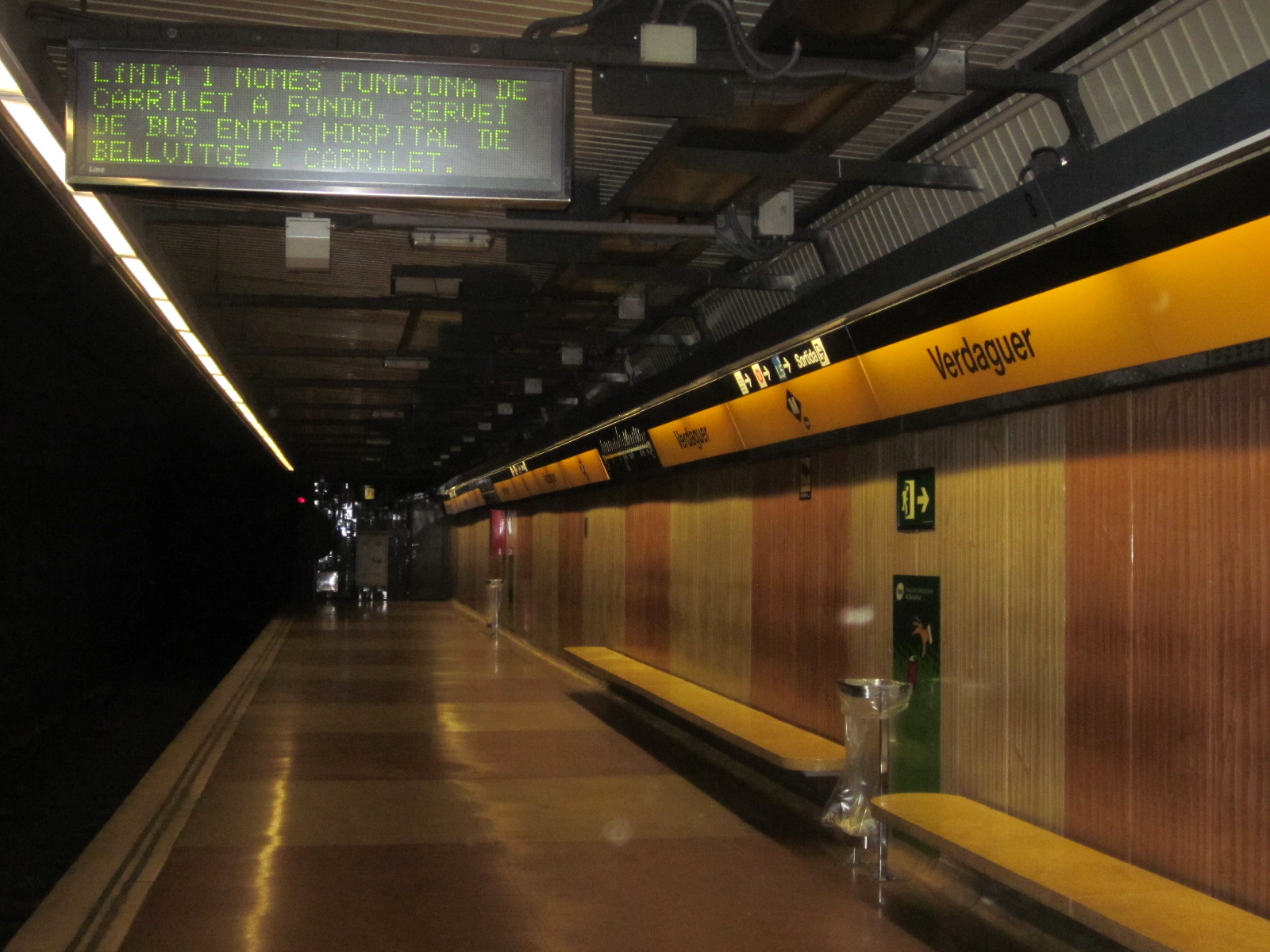 Verdaguer L4 metro station in Barcelona.